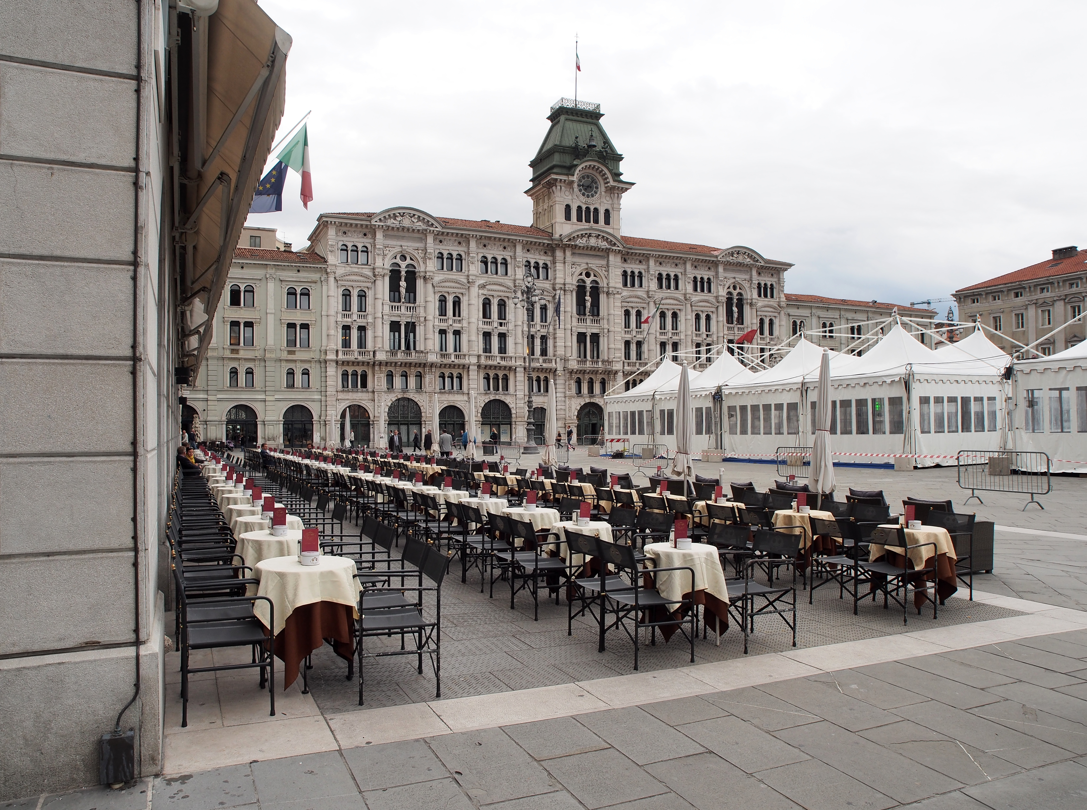 Caffè degli Specchi in Trieste, Italy. Most famous Caffe in Trieste, placed on Piazza Unità d'Italia. Opened 1839.